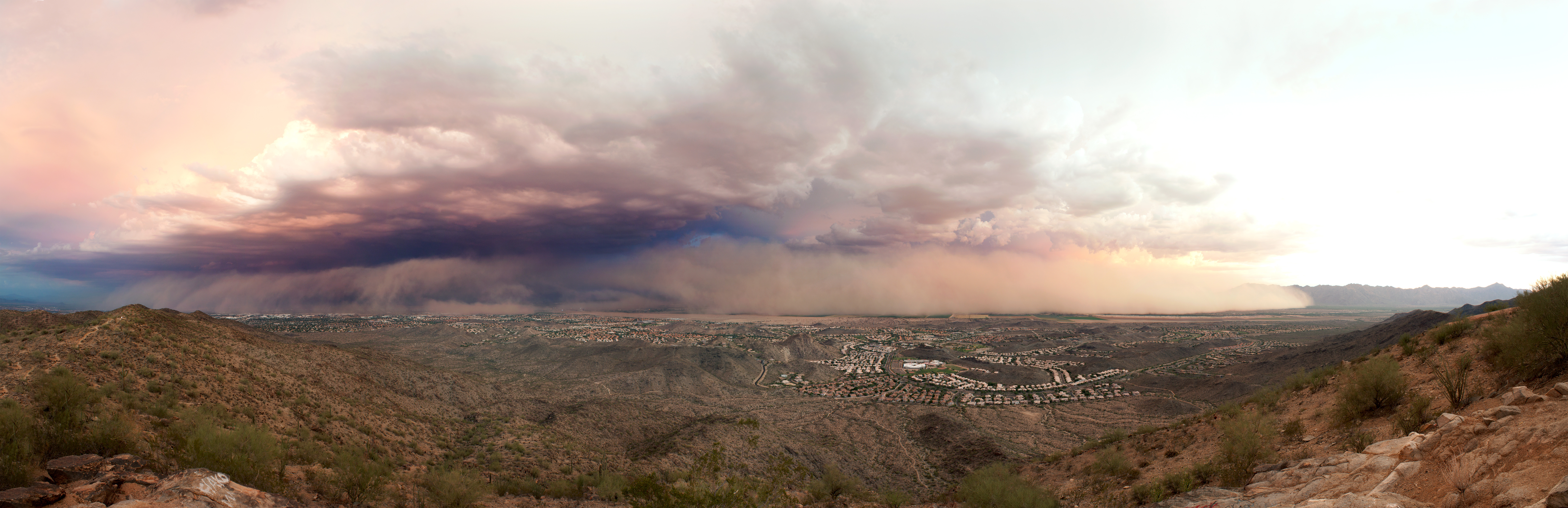 Dust Storm over Phoenix 2011